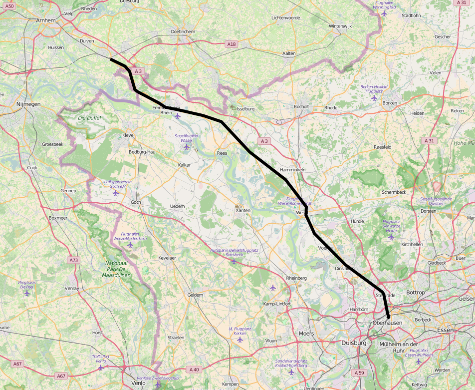 Railway map of third railway track between Zevenaar in the Netherlands and Oberhausen in Germany